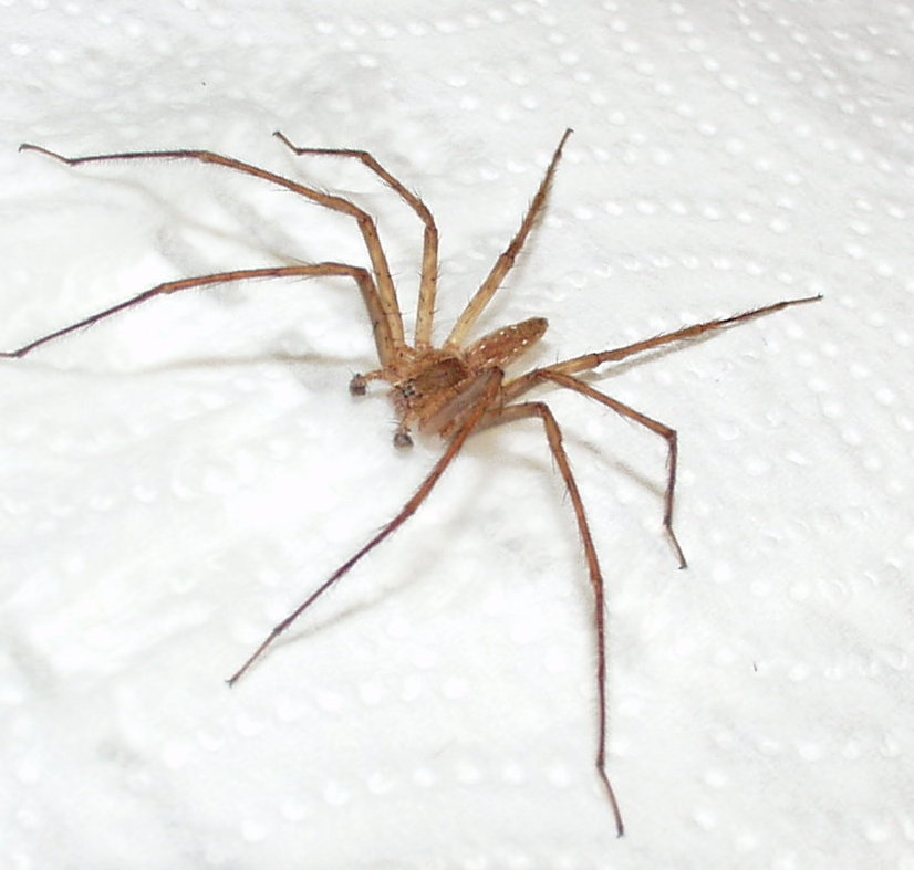 Photograph of Oxyopes species, male. Location: Winston-Salem area, NC.